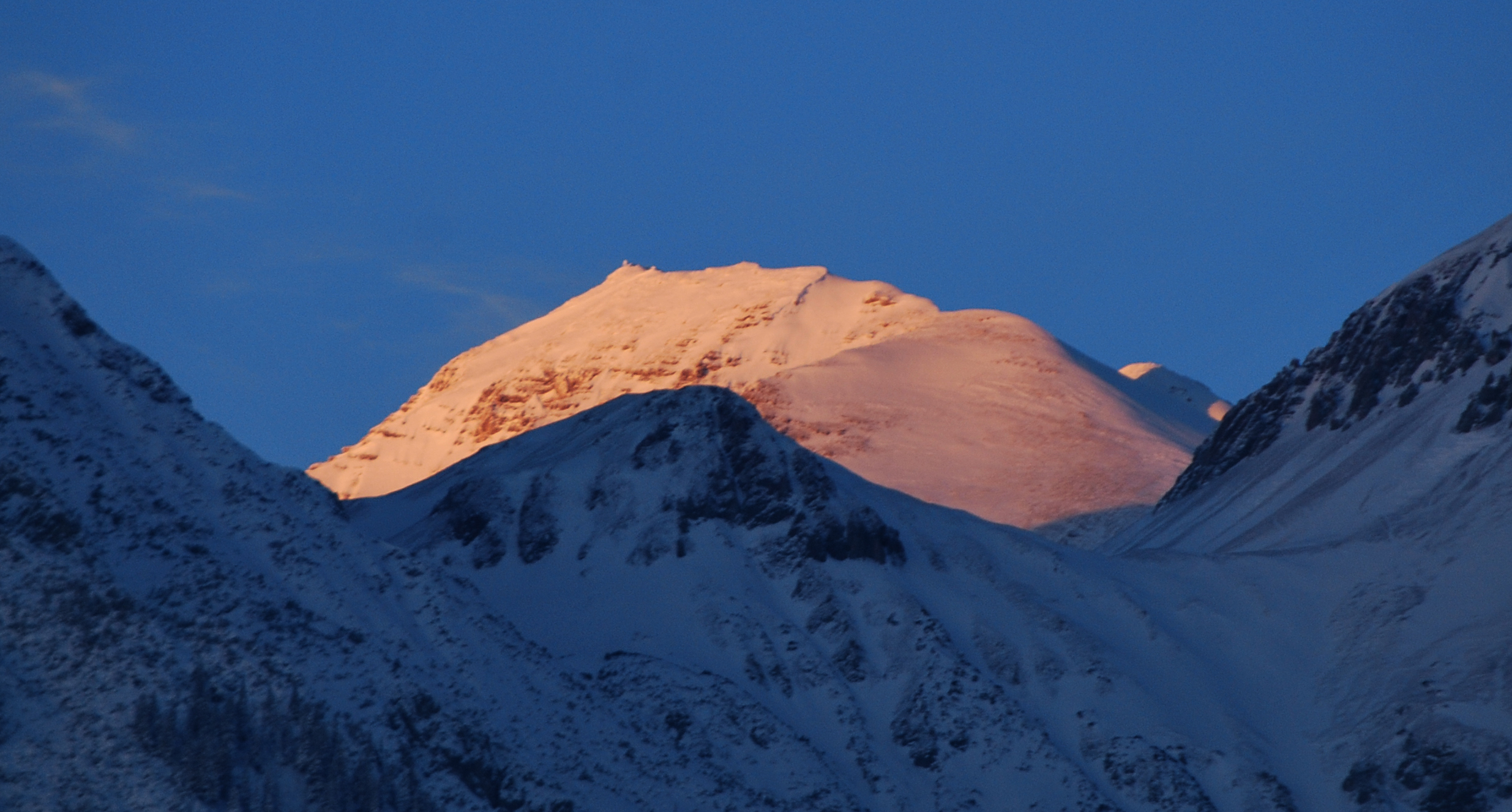 Kleine Stempeljochspitze from Innsbruck